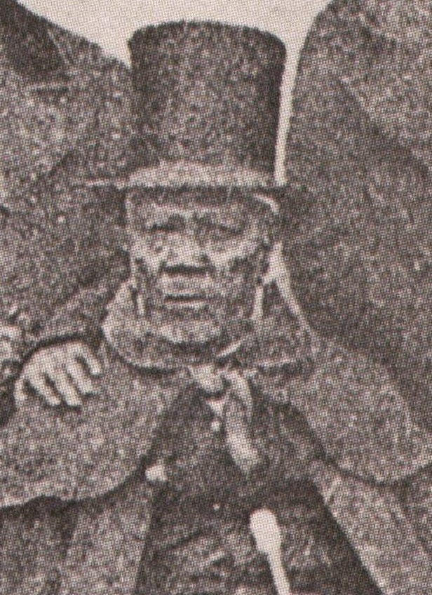 King Moshoeshoe or Moshesh of the Basotho people of Lesotho. Photo from the Nineteenth Century.